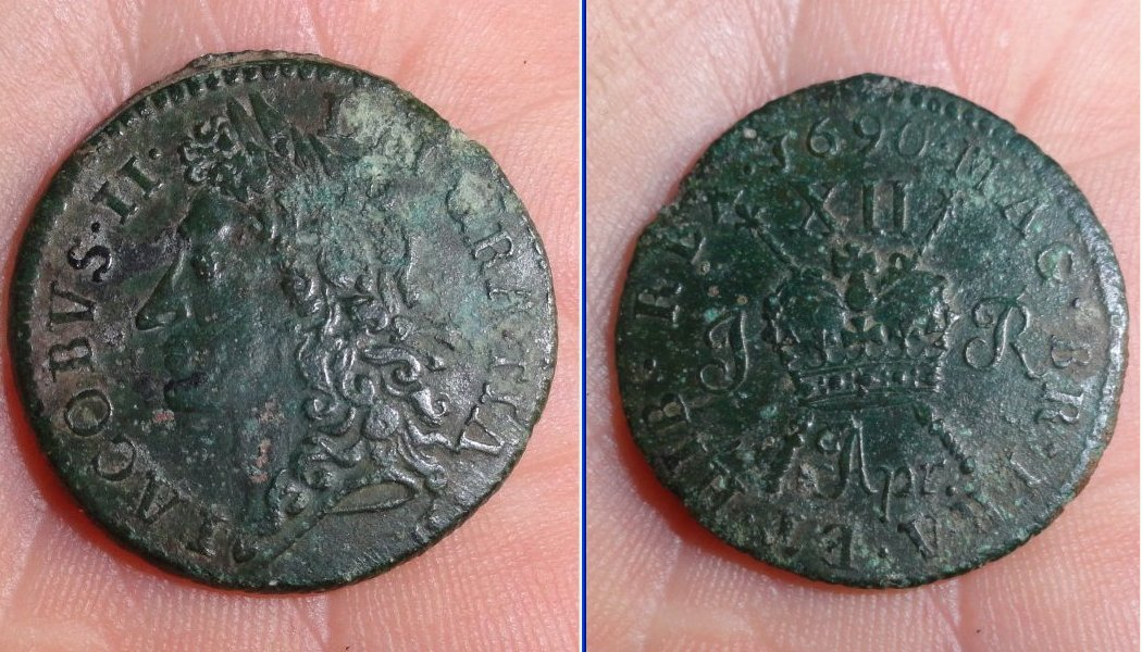 James II Gun Money : 12 One shilling 1690